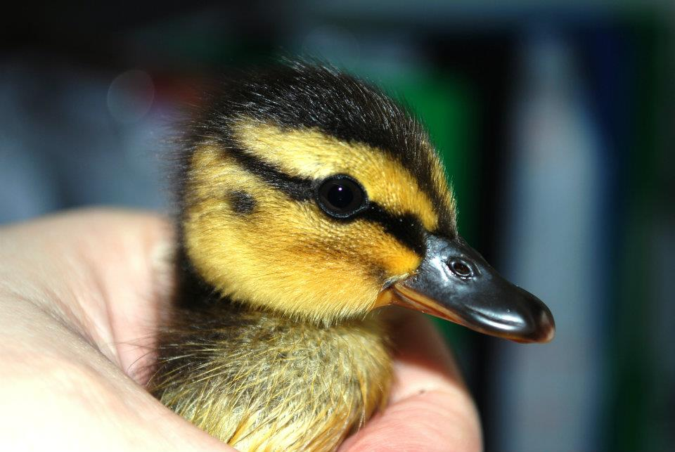 Orphaned Mallard Duckling